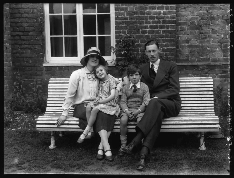 Mabel Philipson with family in 1927